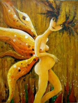 Pintor